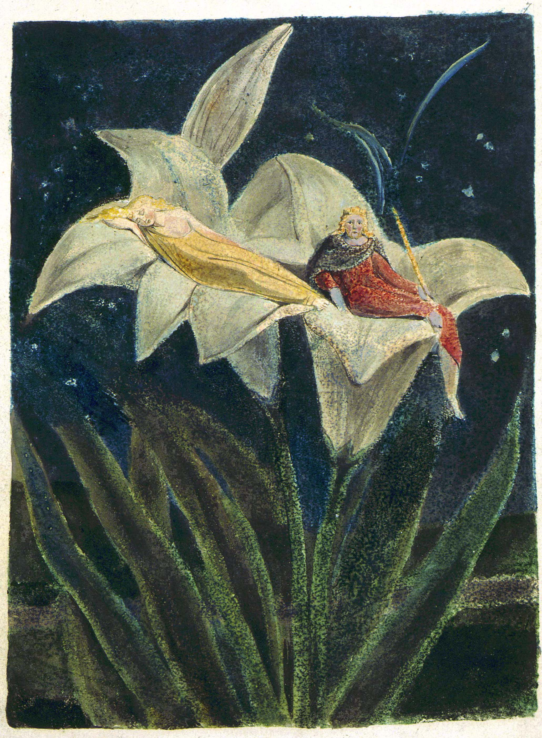 Plate from The Song of Los, copy G, in the collection of the Library of Congress. Leaf size 32.0 x 24.0 cm.